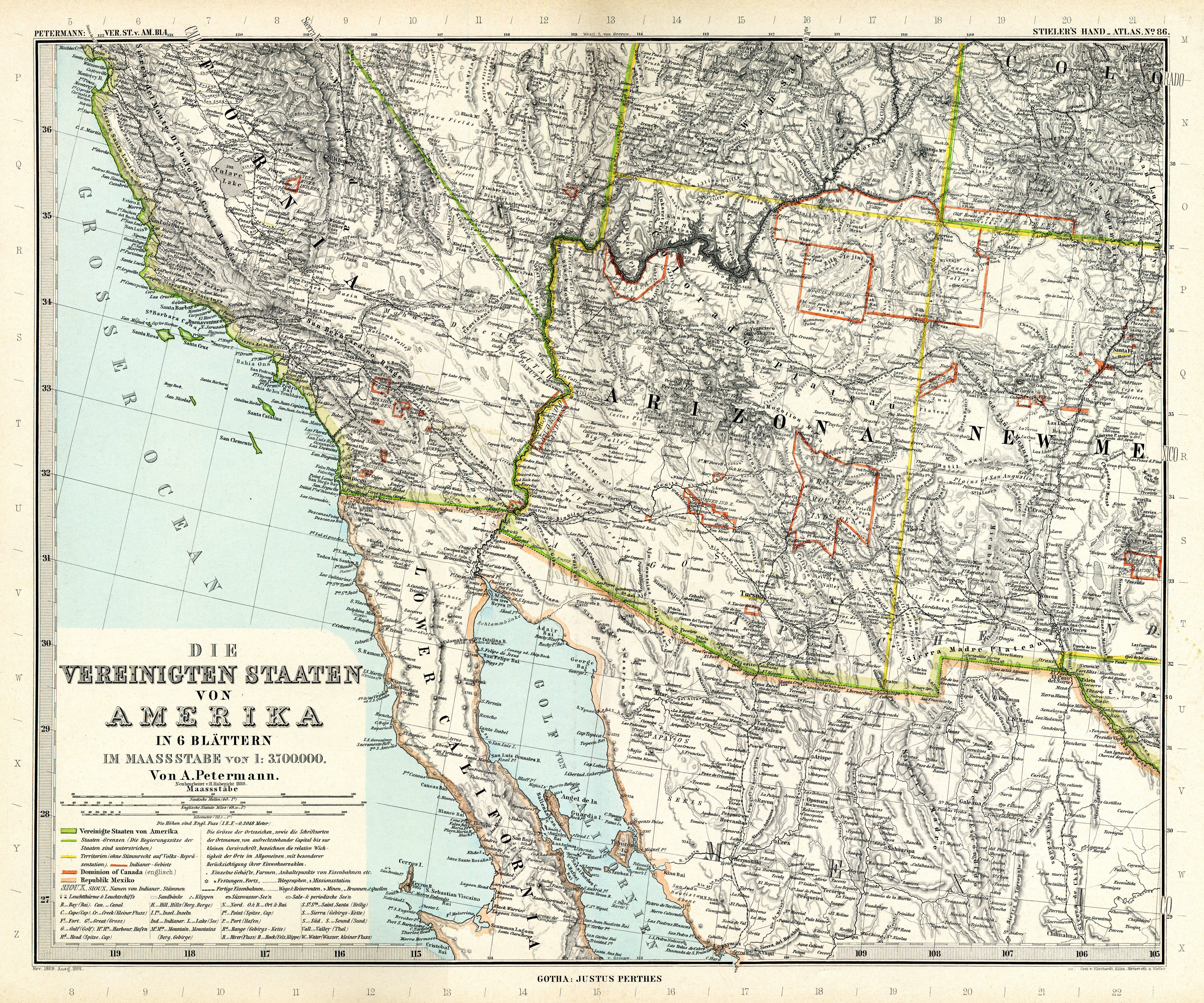 The United States of America in 6 sheets, sheet 4